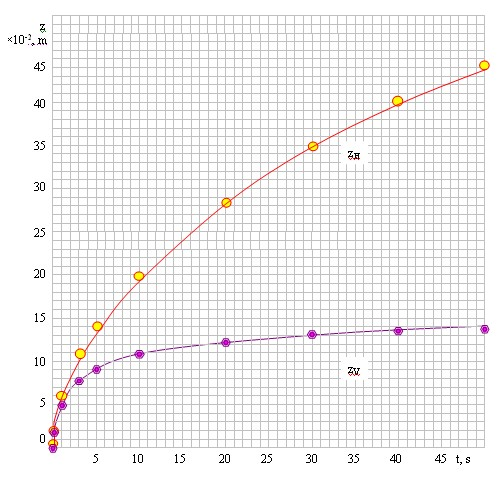 Molecular power 24. Distances traveled by a liquid in horizontal and vertical cylindrical capillaries vs time